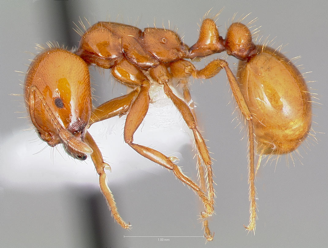 Profile view of ant Solenopsis amblychila specimen casent0005802.